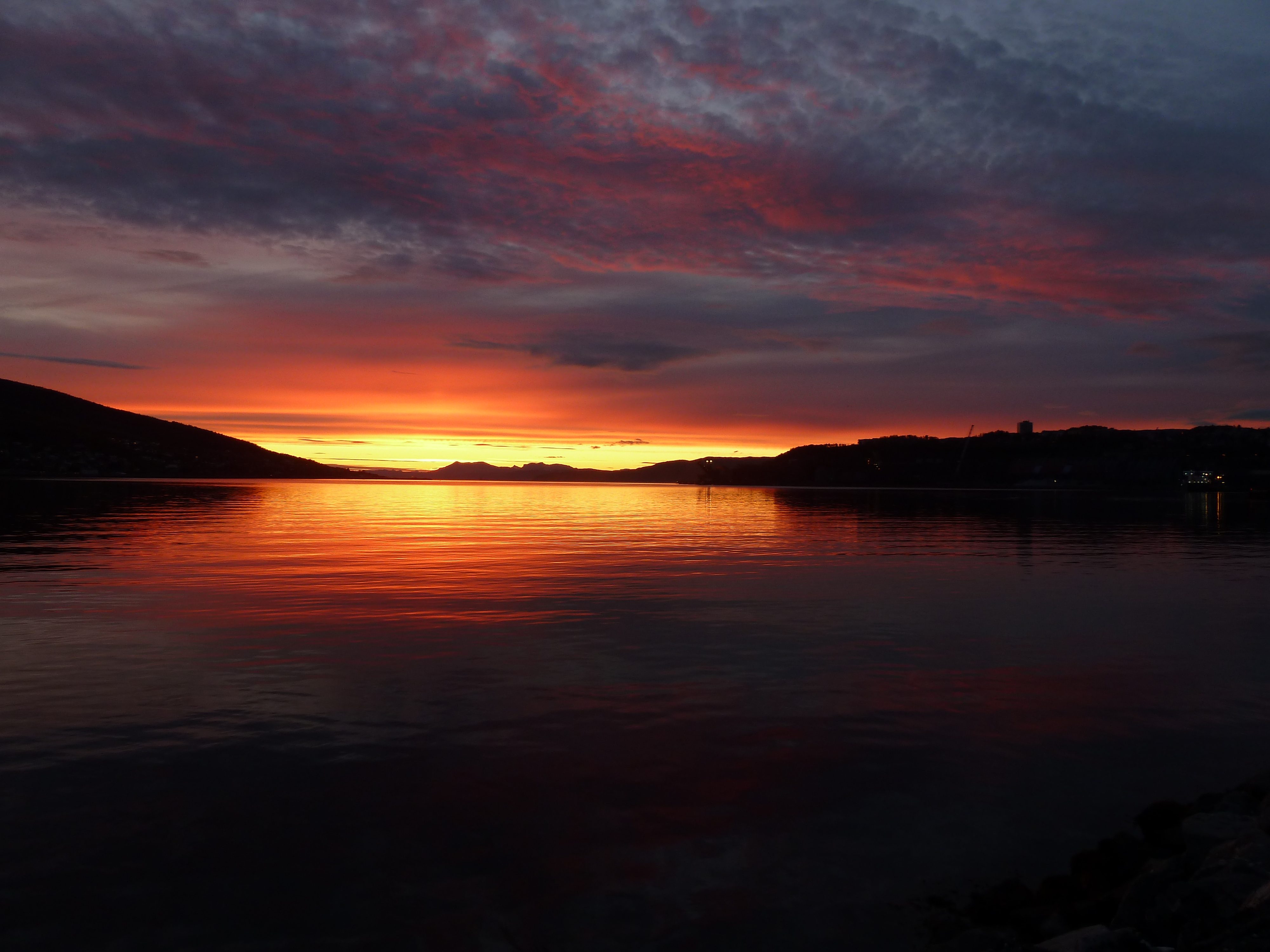 September-evening-sun in the west viewed from the outer part of the Beisfjord(Narvik Bay or Narvik Harbour) towards Ofotfjorden at